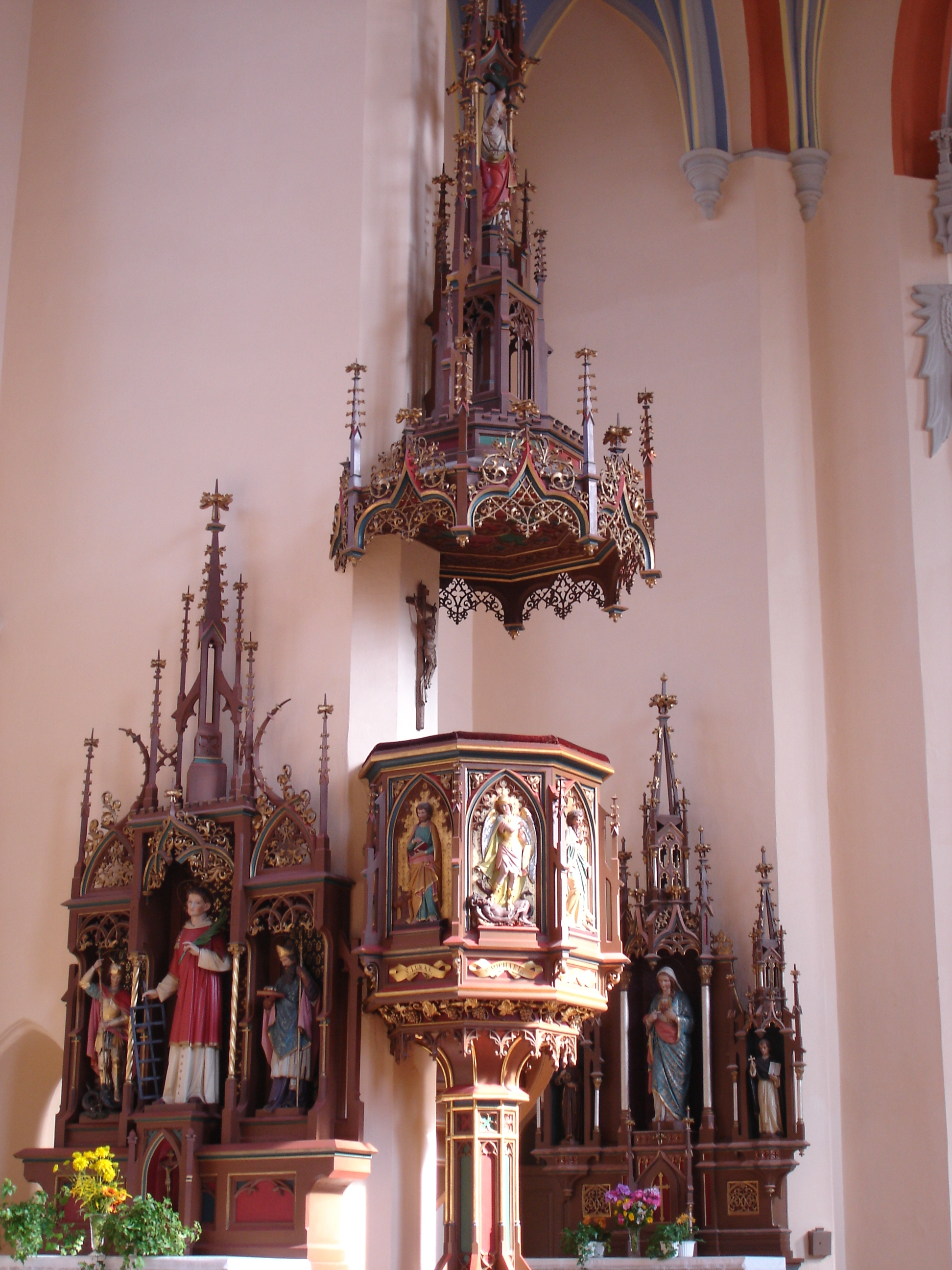 St. Marien Hof, Kanzel